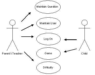 My first use case